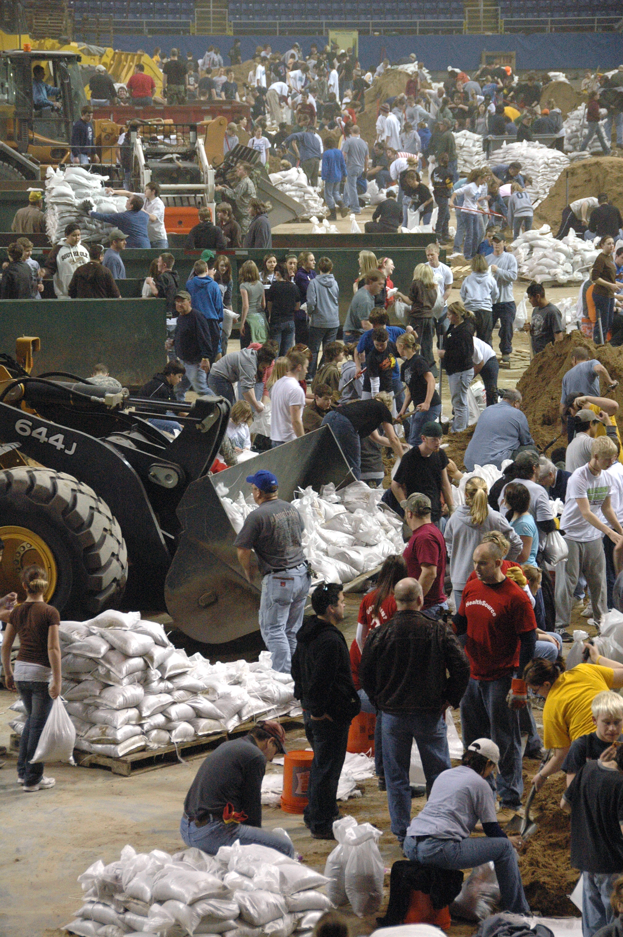 North Dakota National Guard members and civilian volunteers fill sandbags at the Fargodome in Fargo, N.D., March 24, 2009. The sandbags are being used to block the rising waters of the Red River.